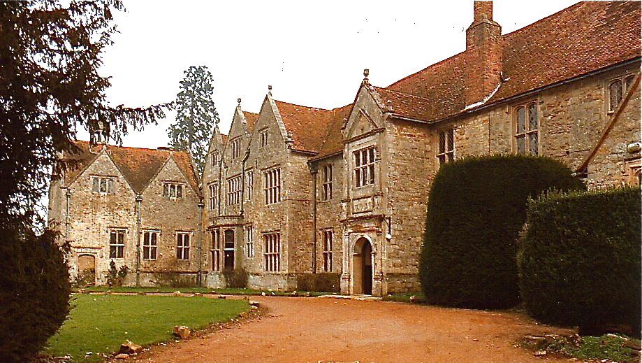 Studley Priory, Oxfordshire, Horton-cum-Studley, England. Photograph made by Michael C. Berch (User:MCB)Camera: Canon AE-1P. Film: Fujicolor 100